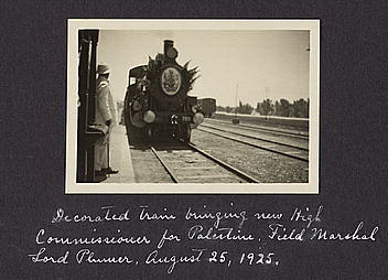 Decorated Train bringing new High Commissioner for Palestine Field Marshal Lord Plumer, August 25, 1925